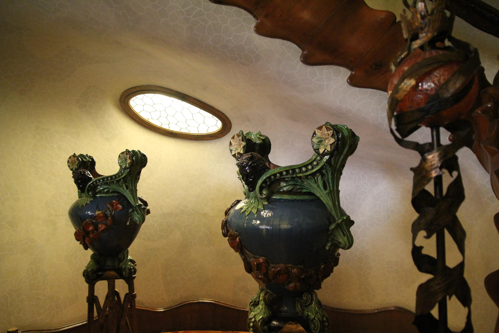 Barcelona 2013